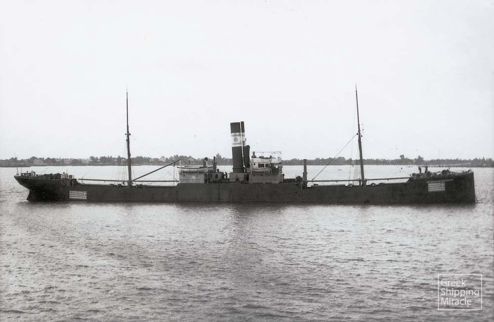 Greek steamship «ANTONIOS M. MAVROGORDATOS ». Sunk by German submarine June 17, 1917